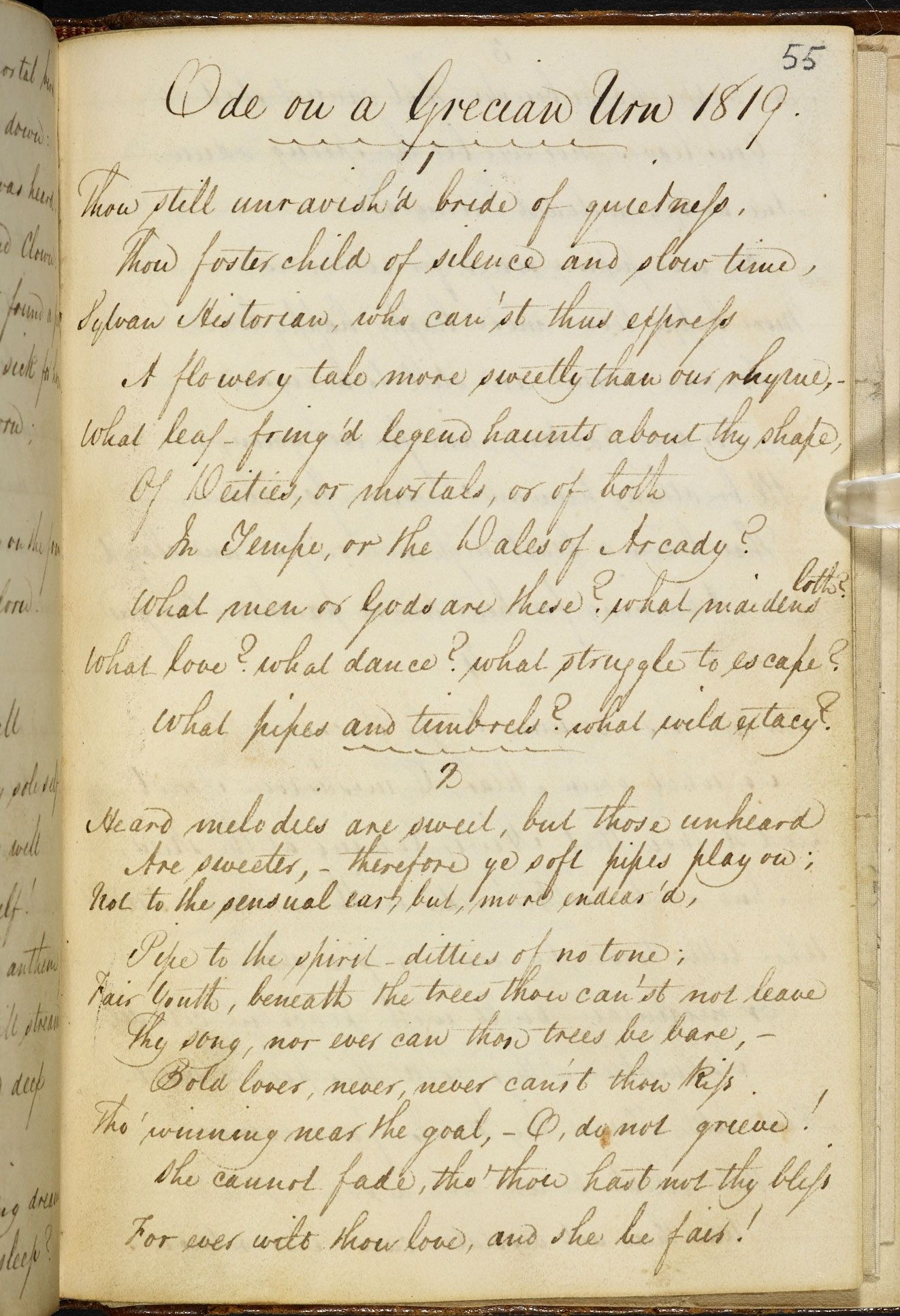 John Keats: Ode on a Grecian urn. Copied by George Keats, 1820